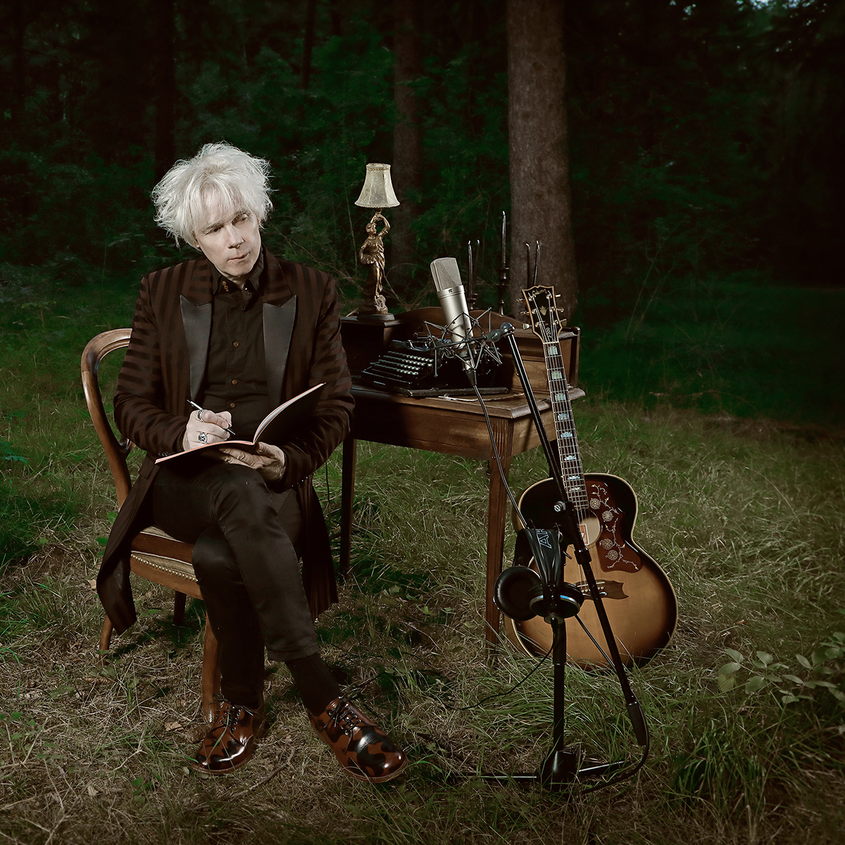 Michael Sele Foto by Roland Korner